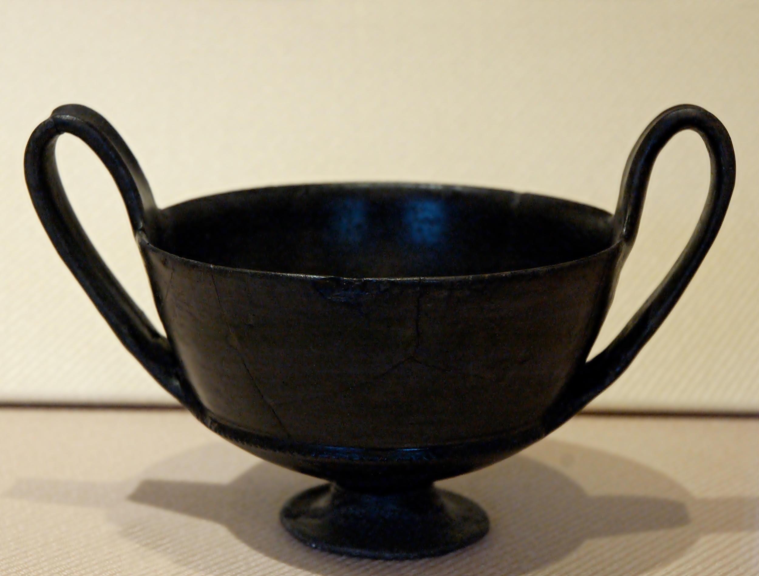 Bucchero kantharos, 3rd or 4th Latial Period. From tomb no. 62 at the cemetary of Osteria dell'Osa, near Rome.